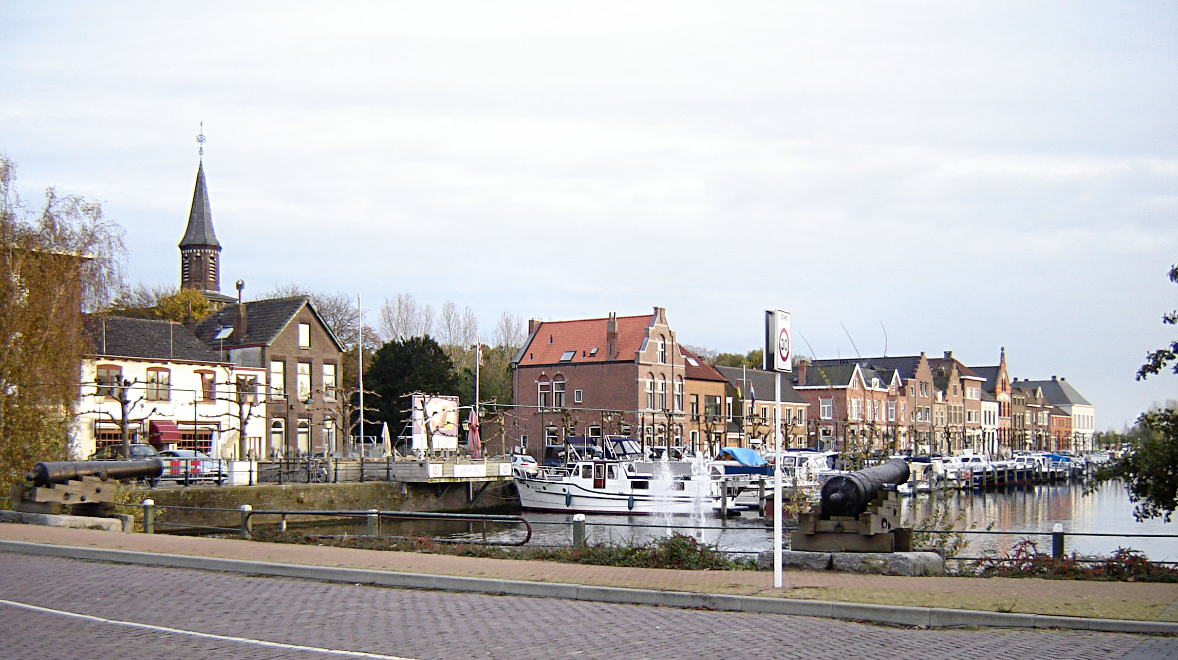 View on the Oostkade (lit. east quay), with the former Dutch Reformed church, at an old section of the Gent-Terneuzen Canal in Sas van Gent. Sas van Gent, Terneuzen, Zeeland, the Netherlands